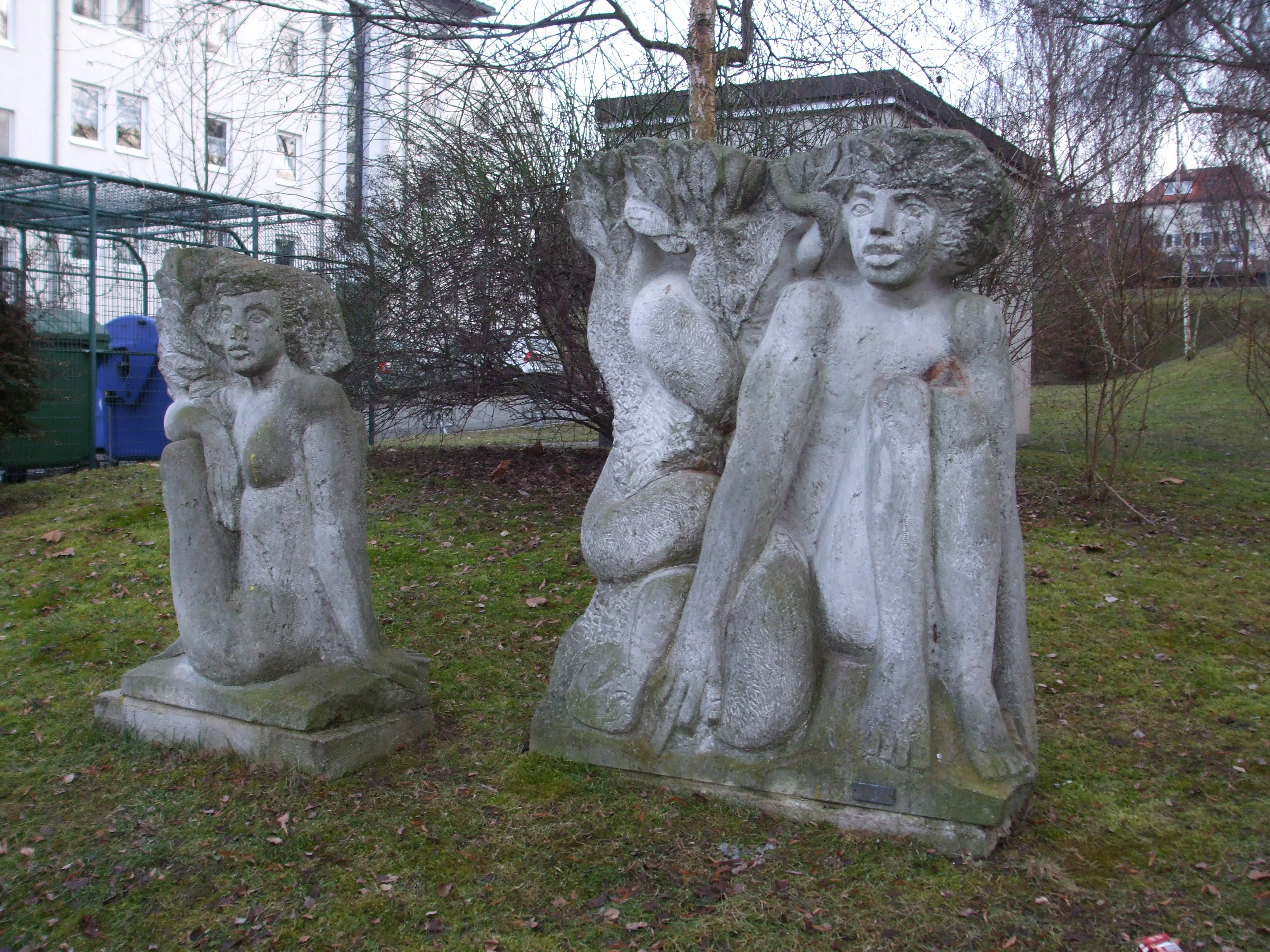 Sculpture Adam und Eva by Ullrich Holland at Ulmenhof in Gera, Germany